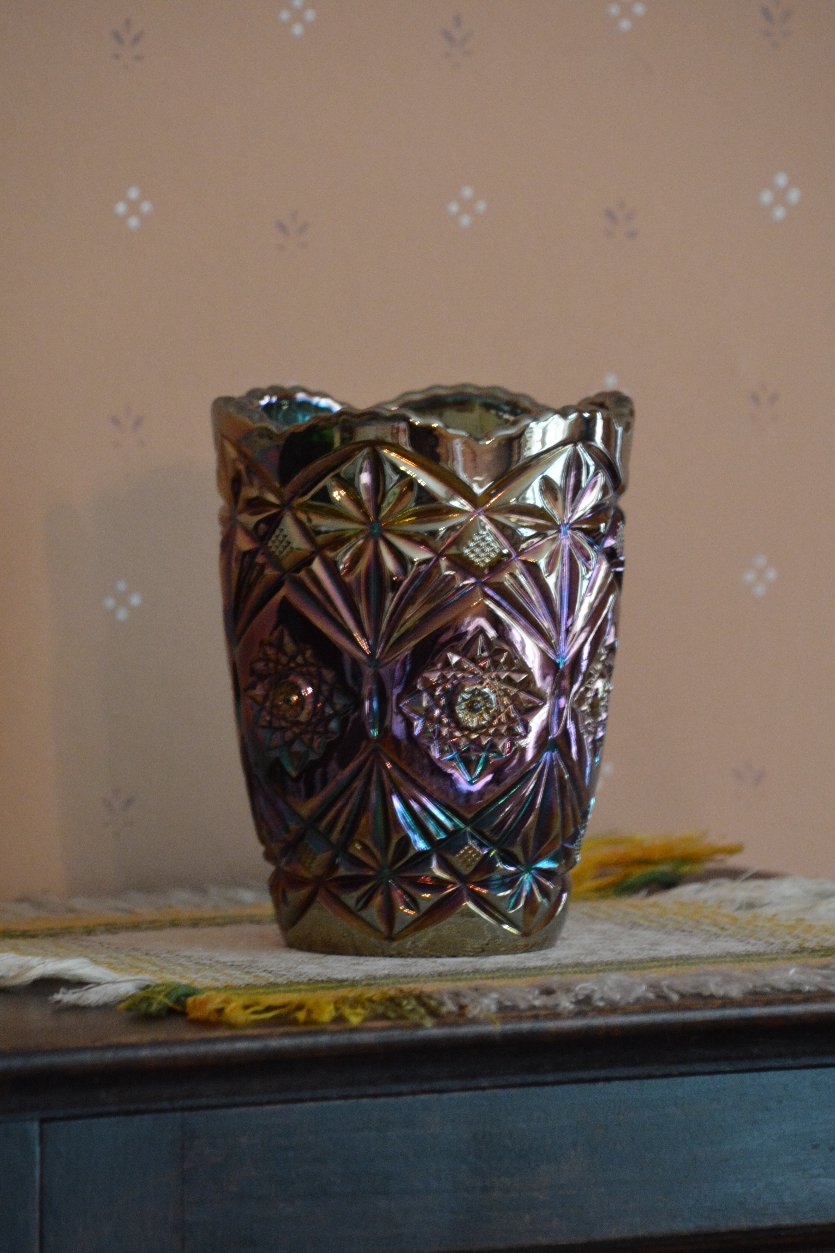 Luster glassware, Karhula or Riihimäki glass works in Finland. Lysterglas, Karhula eller Riihimäki glasbruk, Finland. Forograferad på Arbetarbostadsmuseet i Helsingfors.